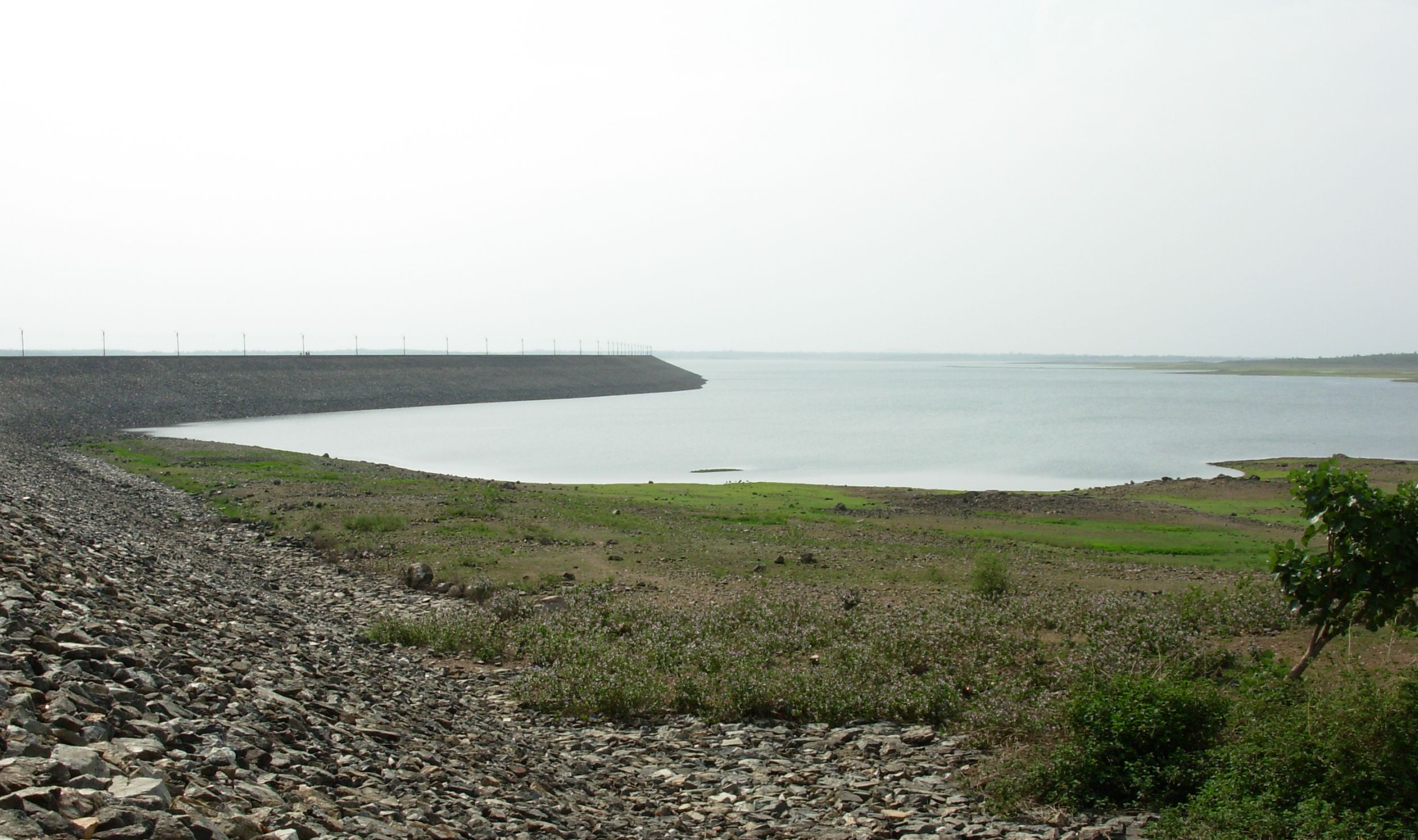 The image Mukutmonipur.JPG is taken by me and I'm uploading it for free use by Wikipedia users.